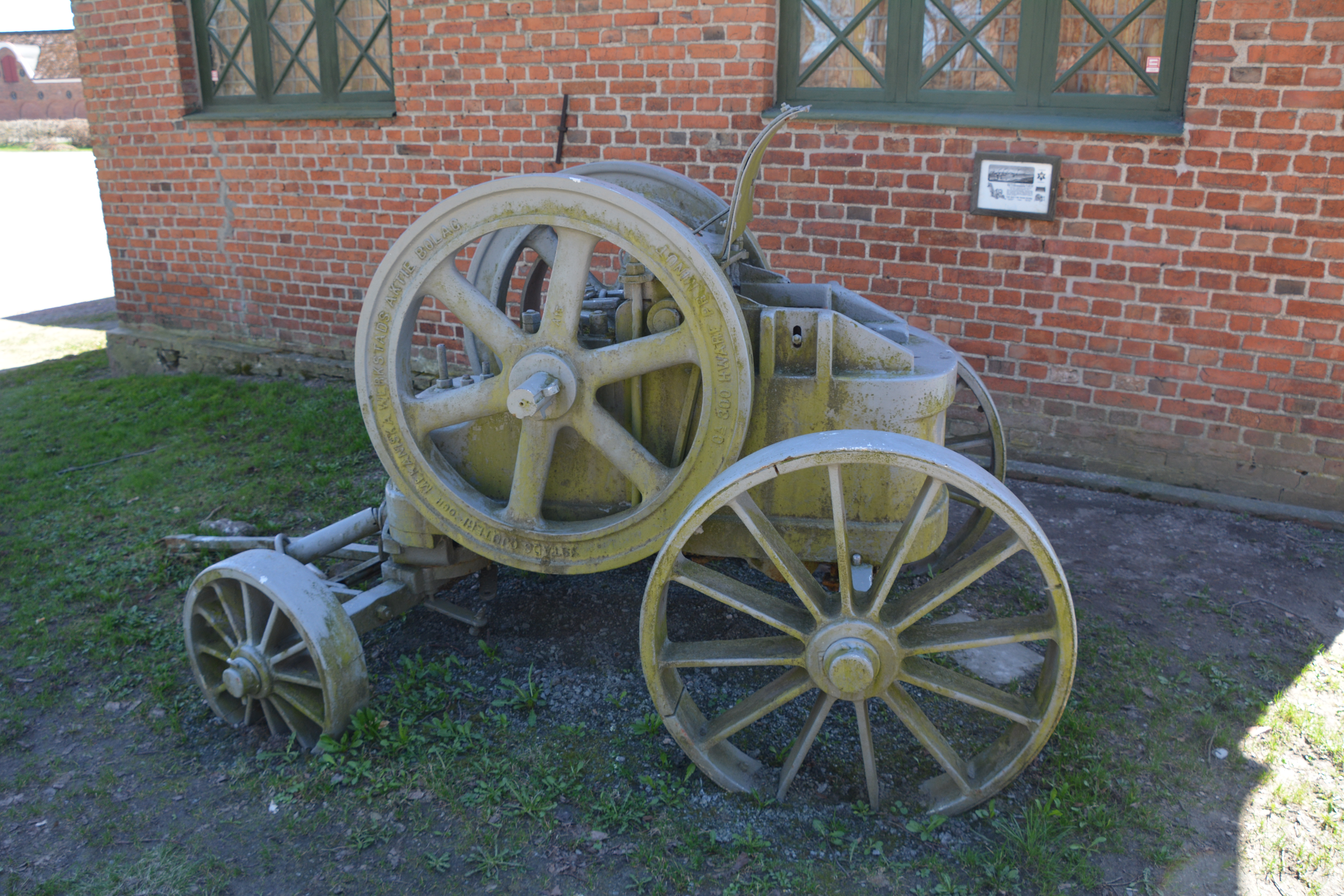 Stone and ore crusher "Ysta Simson" from Ystads Gjuteri & Mekaniska Verkstads AB, photographed at Svaneholm Castle, Sweden